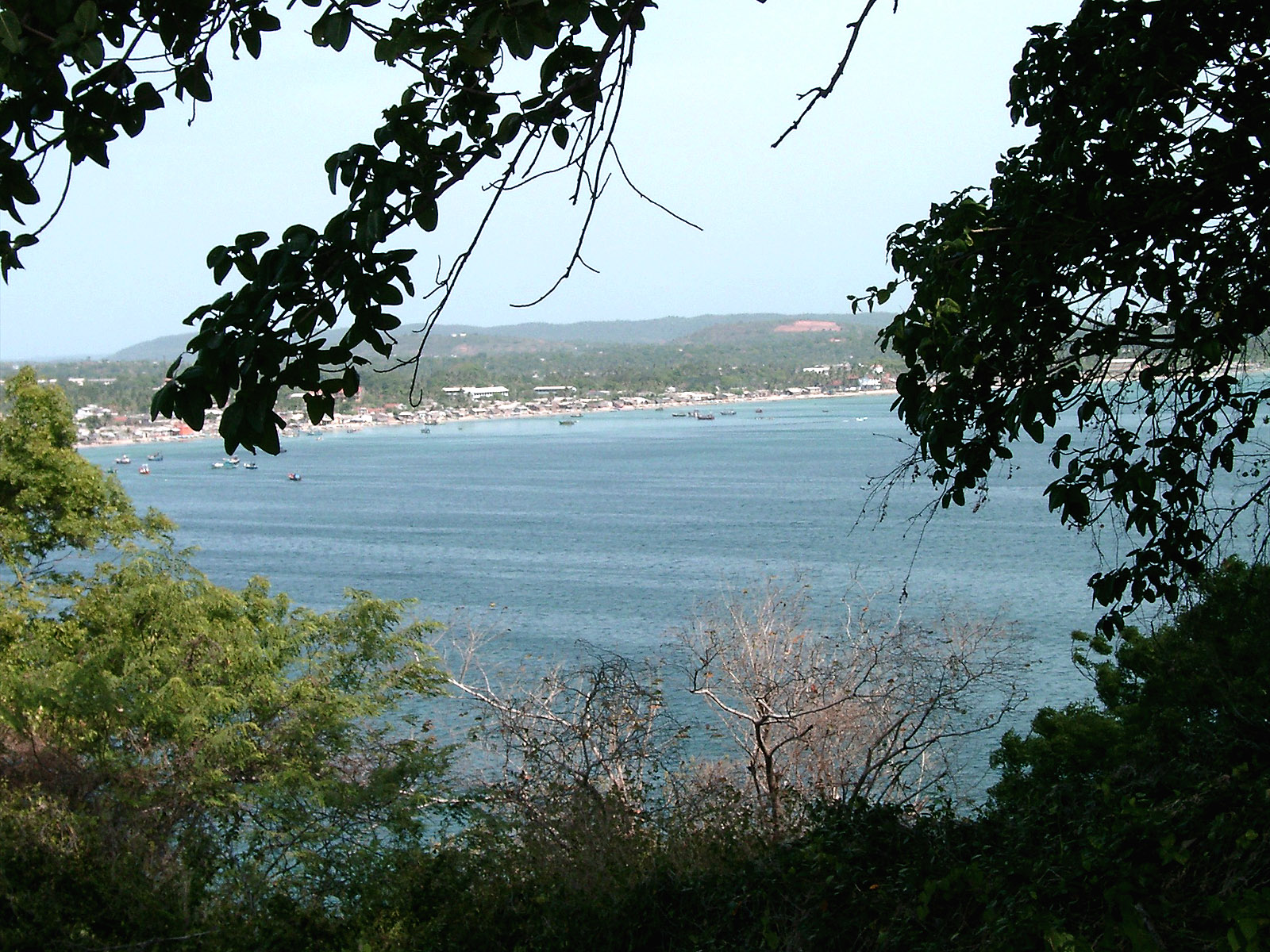 Bay of Trincomalee in Sri Lanka (taken from the temple)